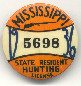 Photo I took of a 1936 State of Mississippi hunting license pin.